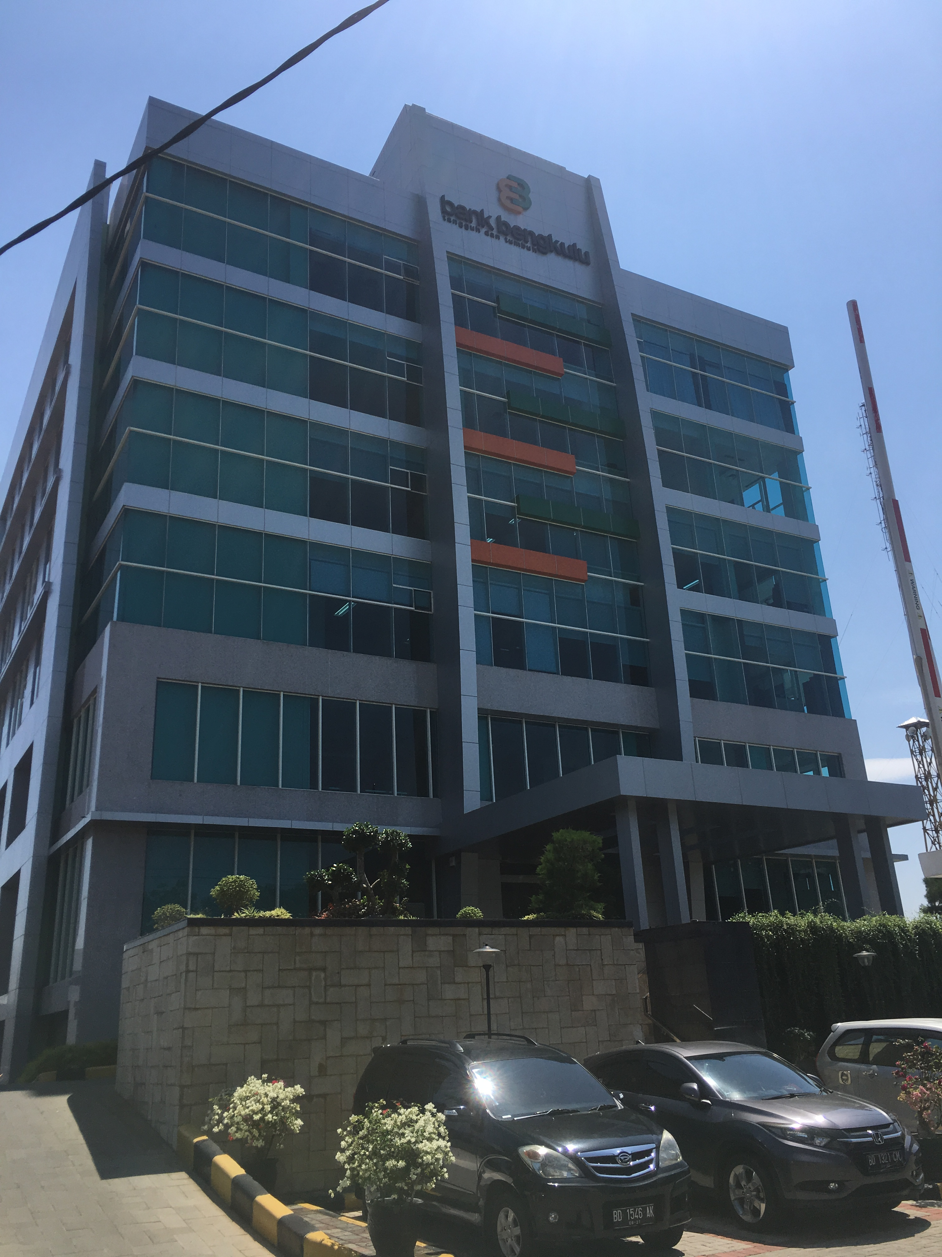 Central Office of Bengkulu Bank in Bengkulu City